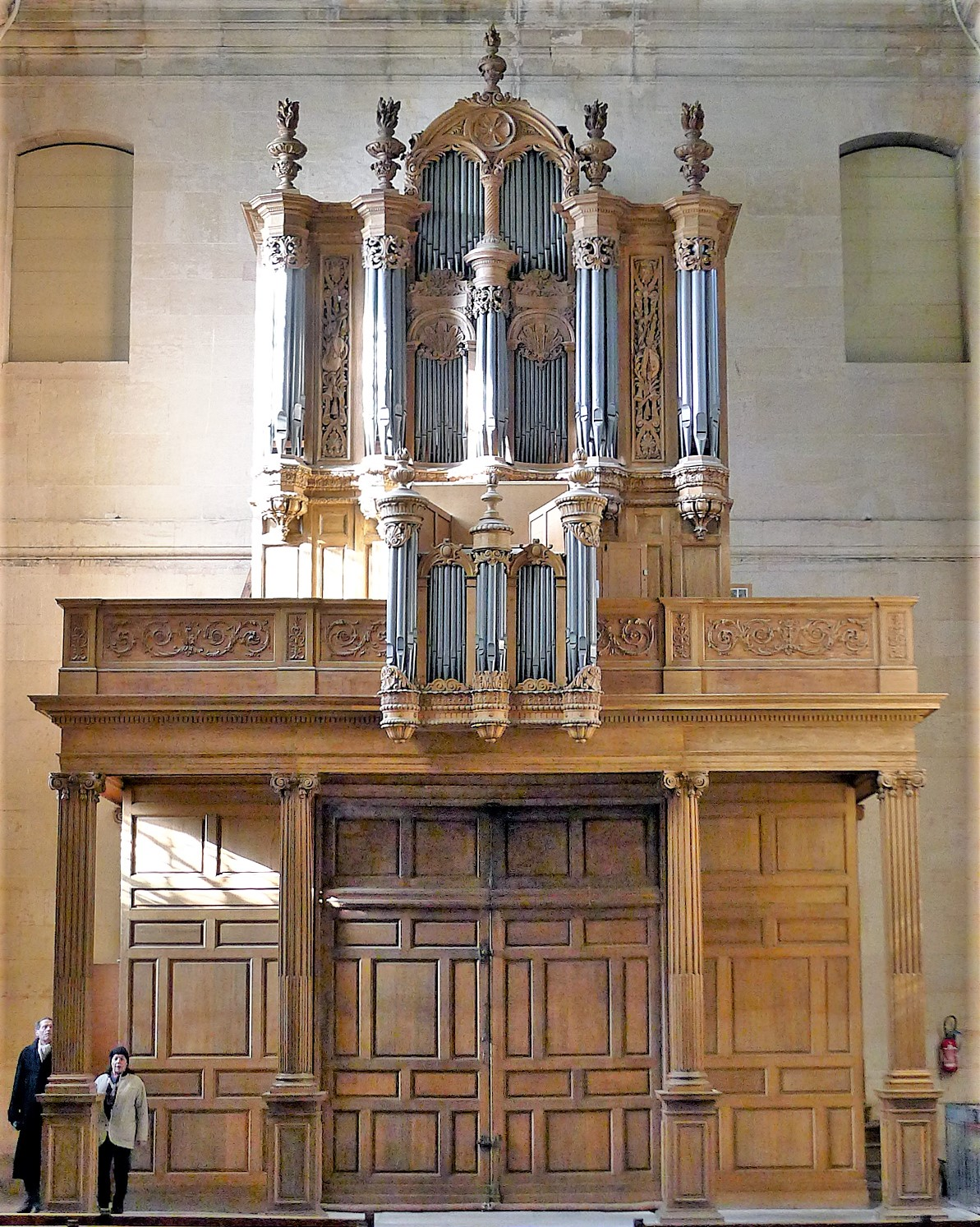 Pitié-Salpêtrière hospital (Saint-Louis church) - Paris